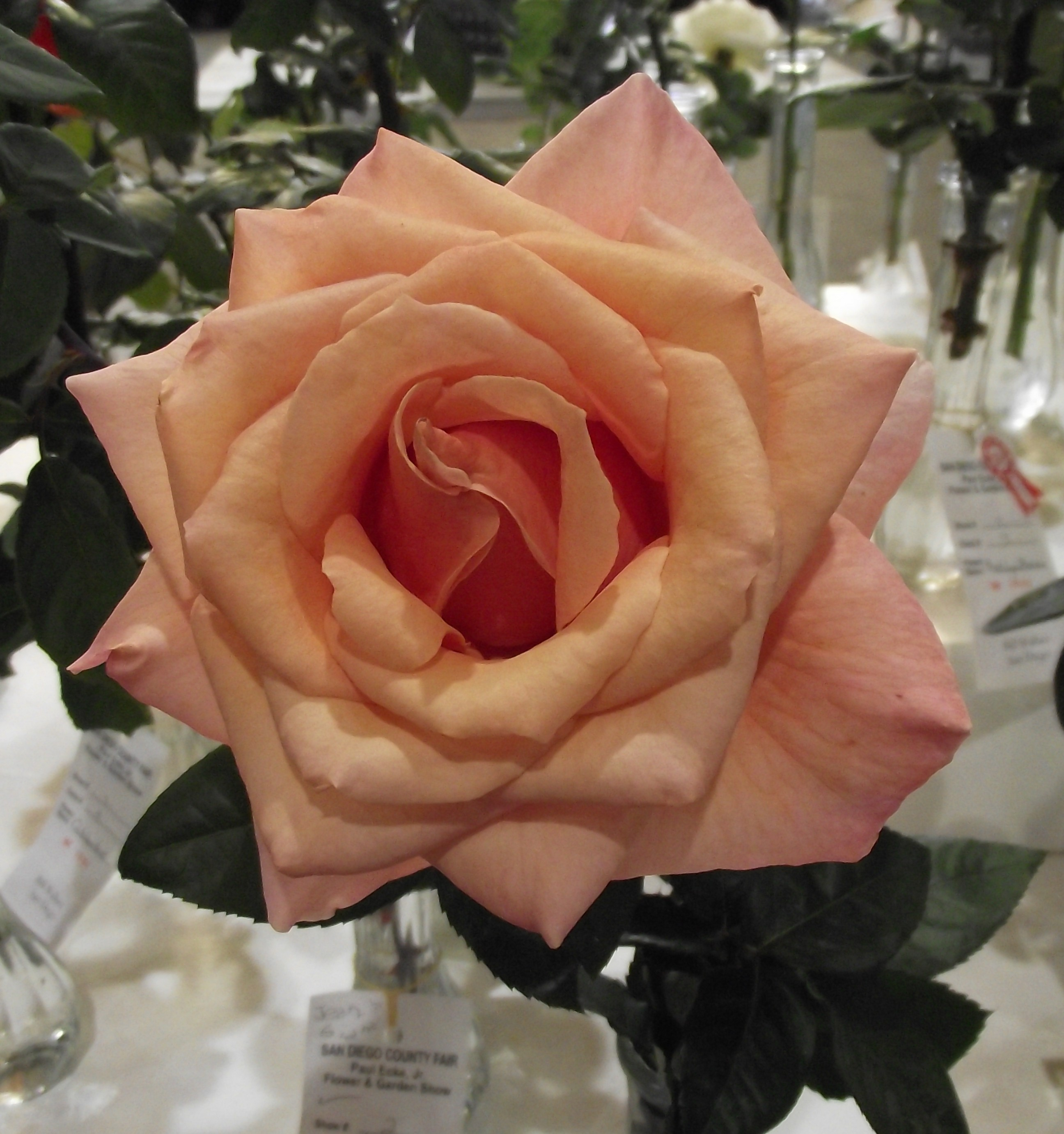 Rosa 'Nancy Reagan' at the San Diego County Fair, California, USA. Identified by exhibitor's sign.